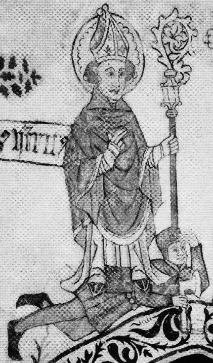 Bishop Henry of Finland as depicted in a painting in the church of Taivassalo, Finland in about 1450